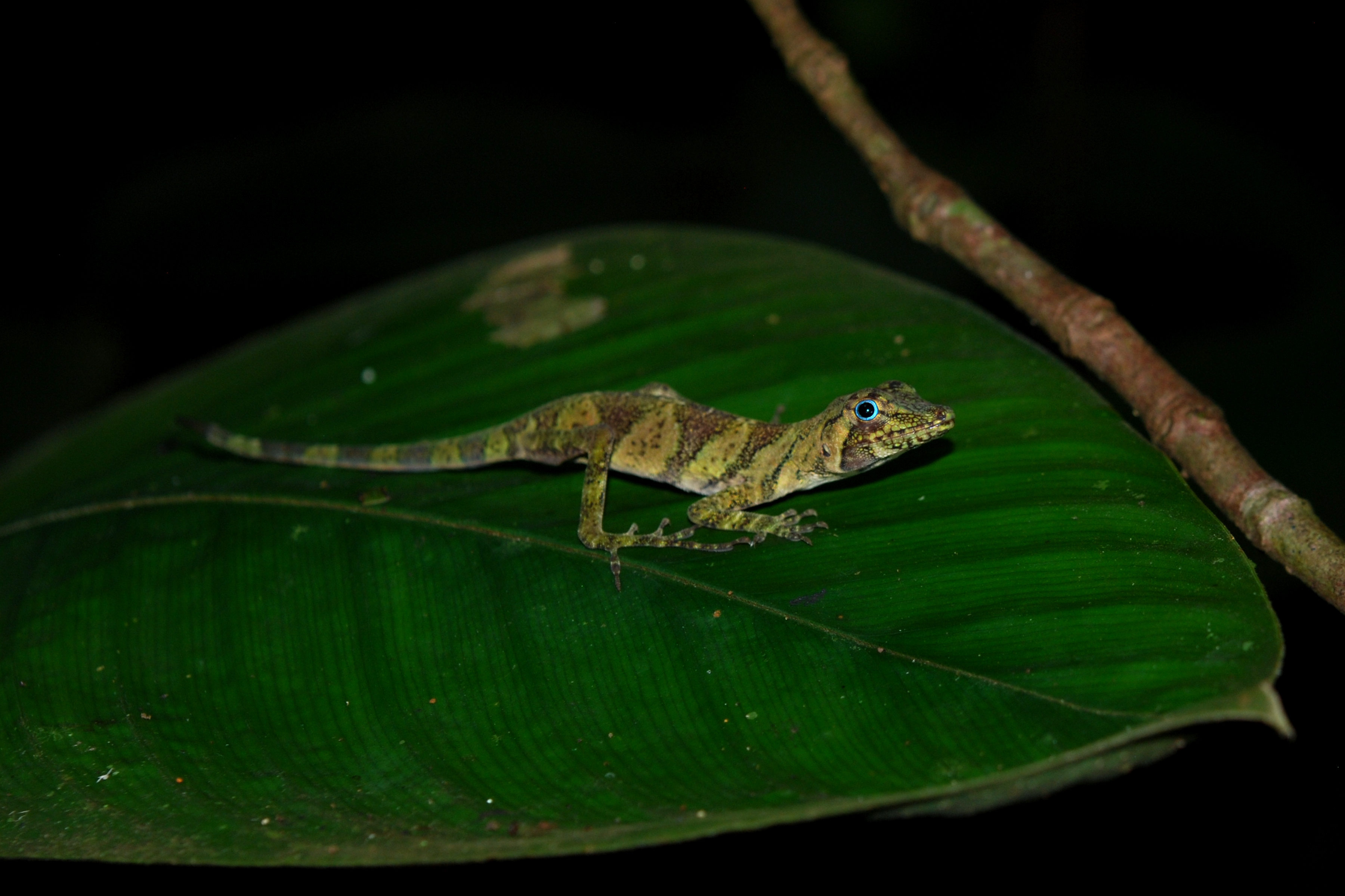 Polychrotidae: Anolis transversalis Found in Yasuni National Park, Ecuador